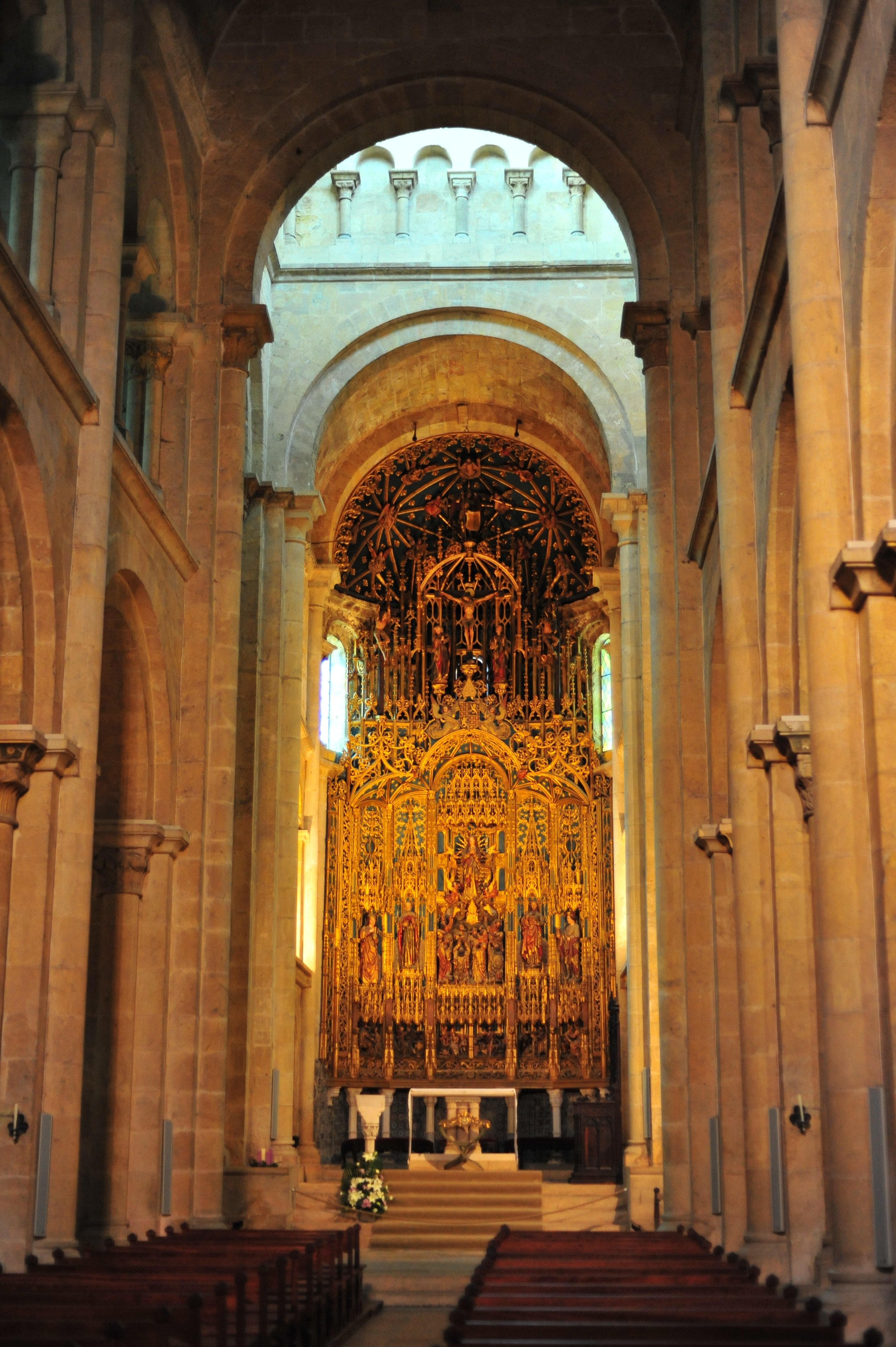 Interior of Coimbra Cathedral seen towards the main chapel (Portugal)